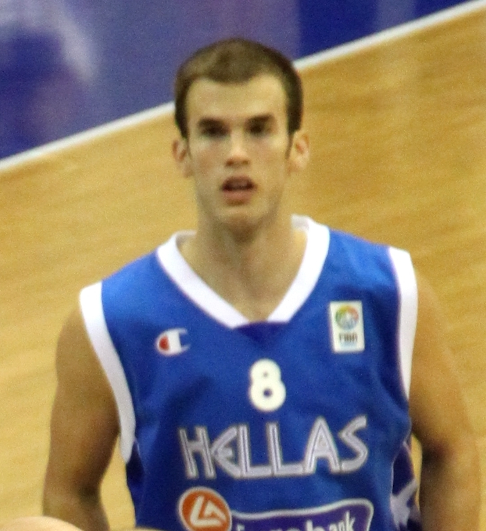 Nick Calathes [Israel 80-106 Greece, Eurobasket 2009, Poland] Israel 80-106 Greece